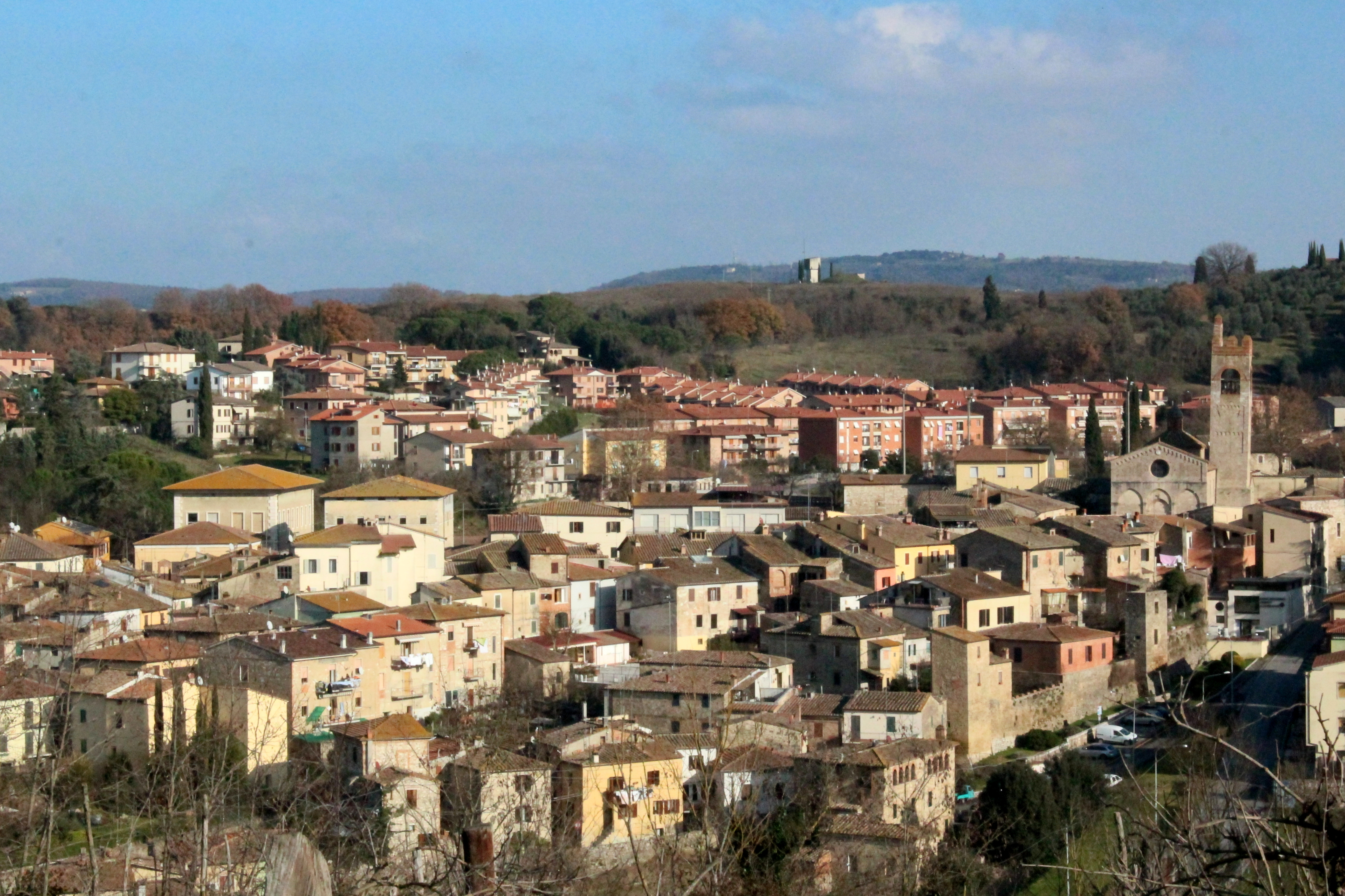 Panorama of Asciano, Crete Senesi, Province of Siena, Tuscany, Italy